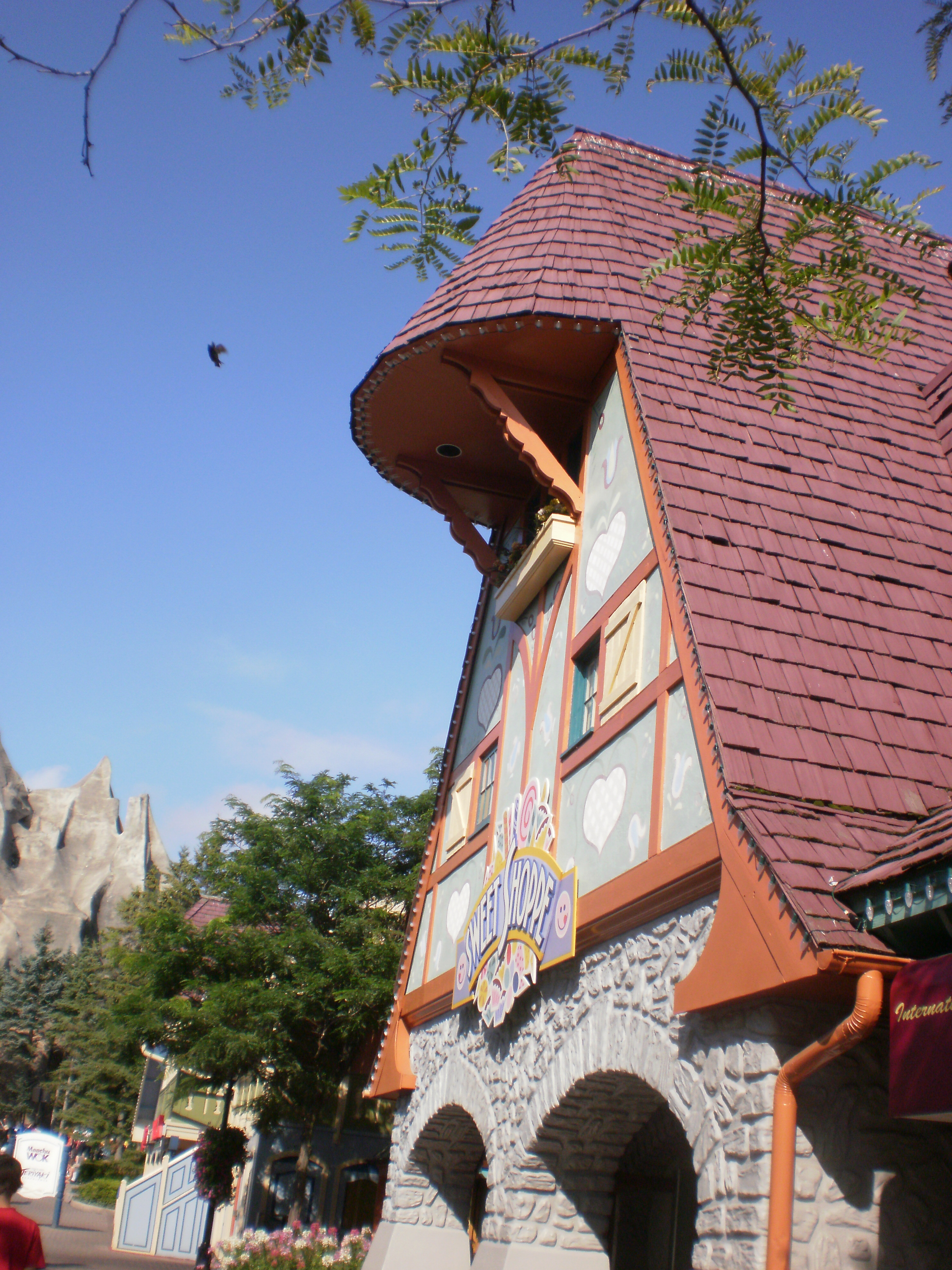 Detail of the Scandinavian Building at Canada's Wonderland theme park, Vaughan, Ontario.